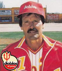 Professional baseball coach Paul Lindblad